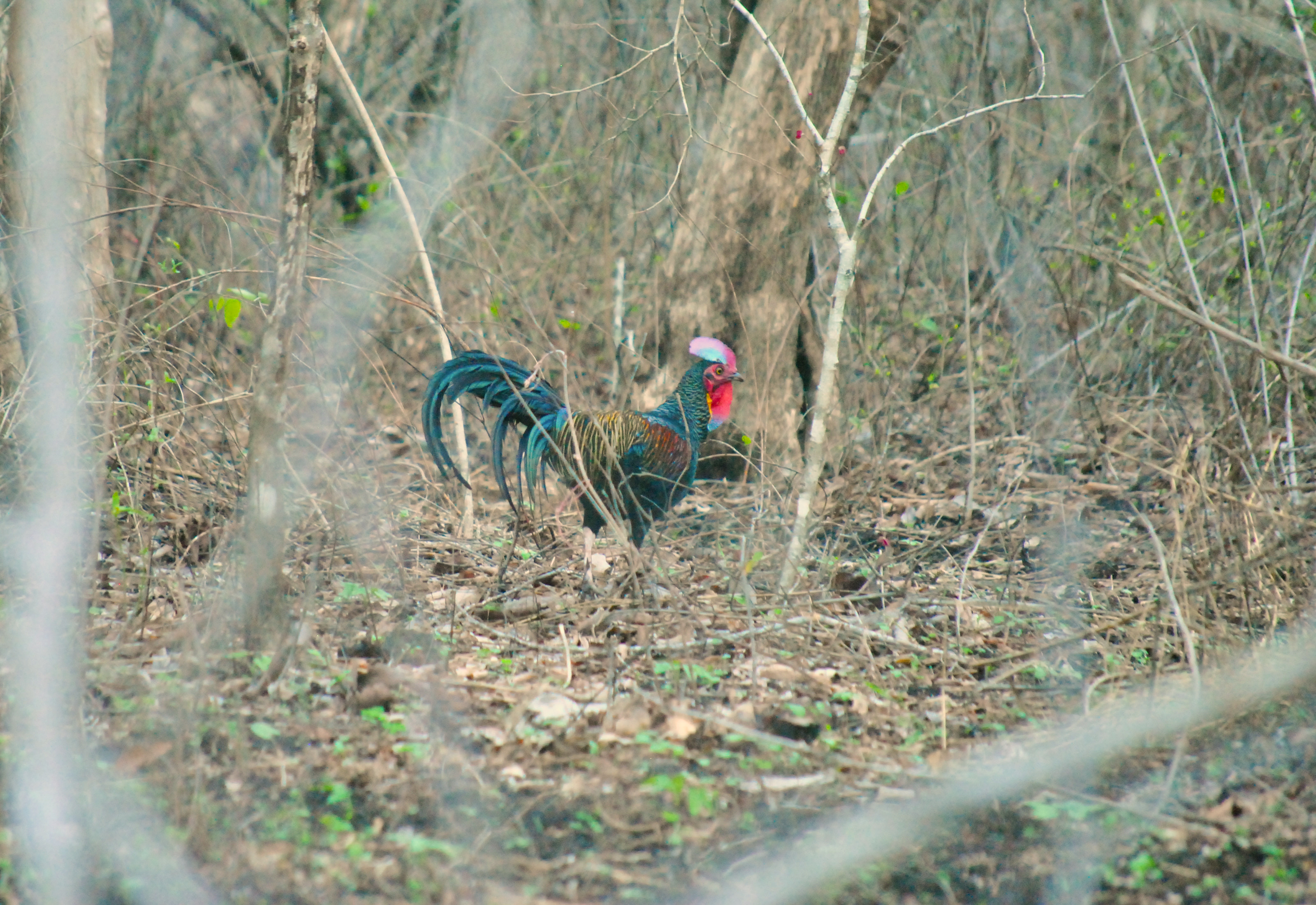 A male Green junglefowl wandering around the dry scrub forests of Baluran National Park, Situbondo, East Java, Indonesia